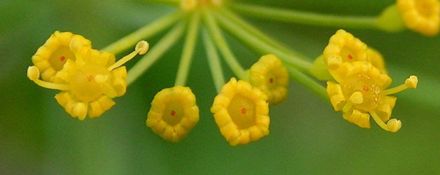 Anethum graveolens. Moscow region, Russia.